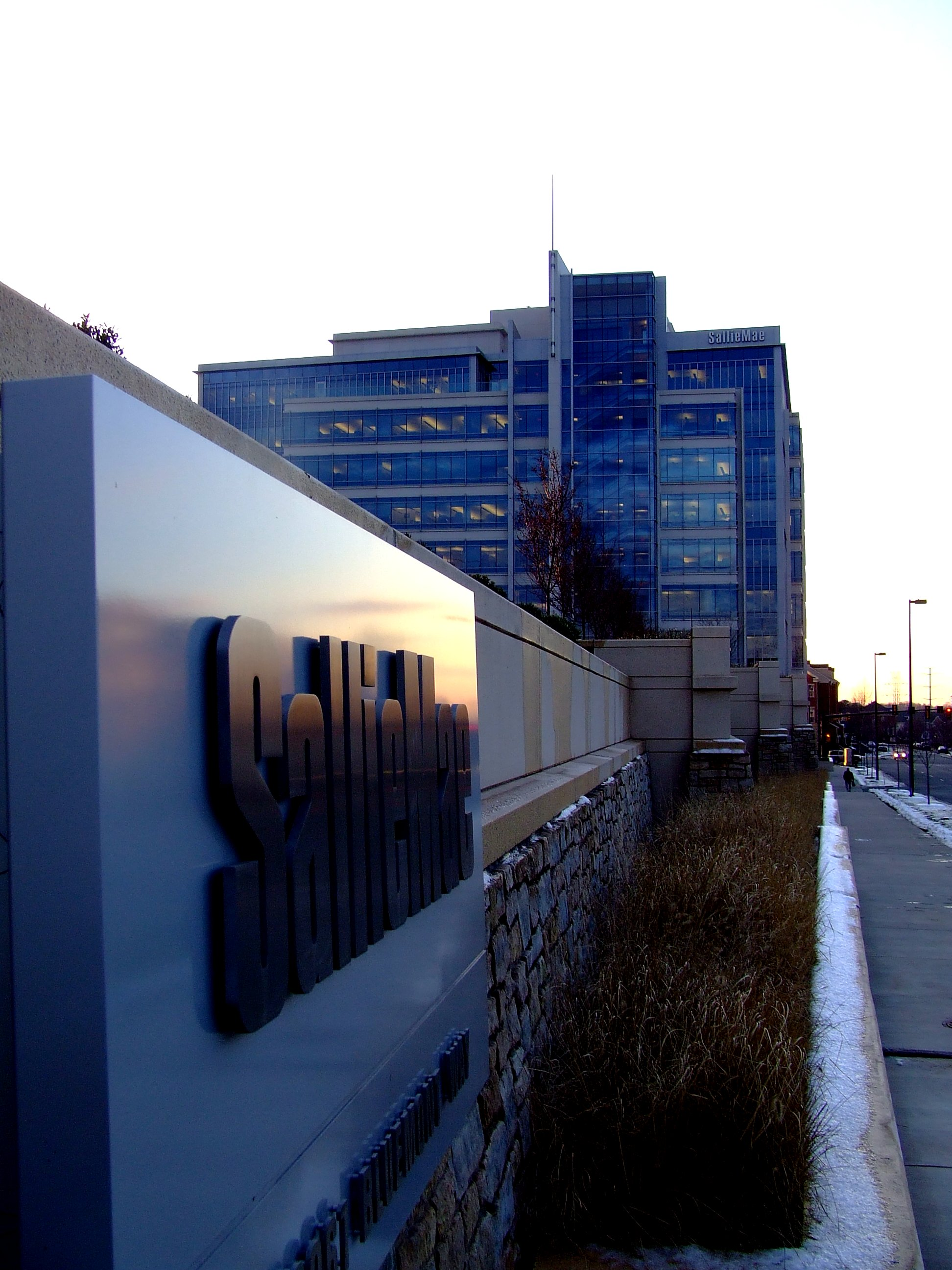 The headquarters of the Sallie Mae Corporation. Copyright 2007 Joshua Davis [1], some rights reserved.